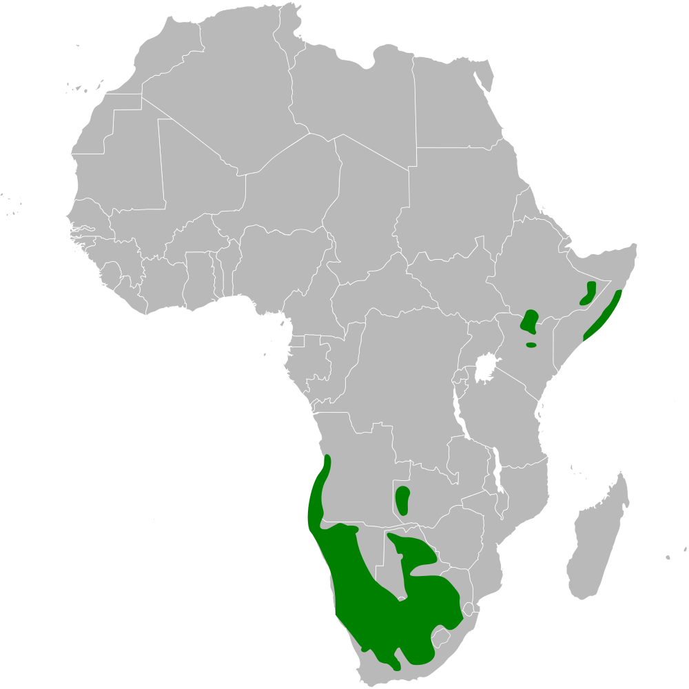 Spizocorys distribution map; using BlankMap-Africa.svg, based on